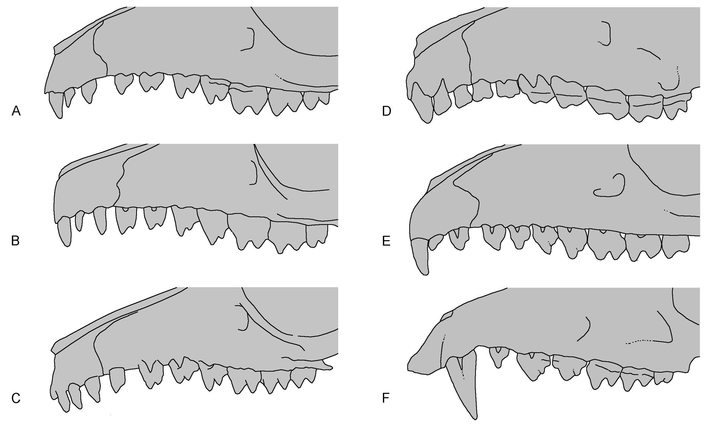 Upper dentition of Macroscelids, redrawn after Mike Perrin and Galen B. Rathbun: Order Macroscelidea - Sengis (Elephant-shrews). In: Jonathan Kingdon, David Happold, Michael Hoffmann, Thomas Butynski, Meredith Happold and Jan Kalina (eds.): Mammals of Africa Volume I. Introductory Chapters and Afrotheria. Bloomsbury, London, 2013, pp. 258–260 (fig. 15). A: Elephantulus, B: Petrosaltator, C: Galegeeska, D: Macroscelides, E: Petrodromus, F: Rhynchocyon.